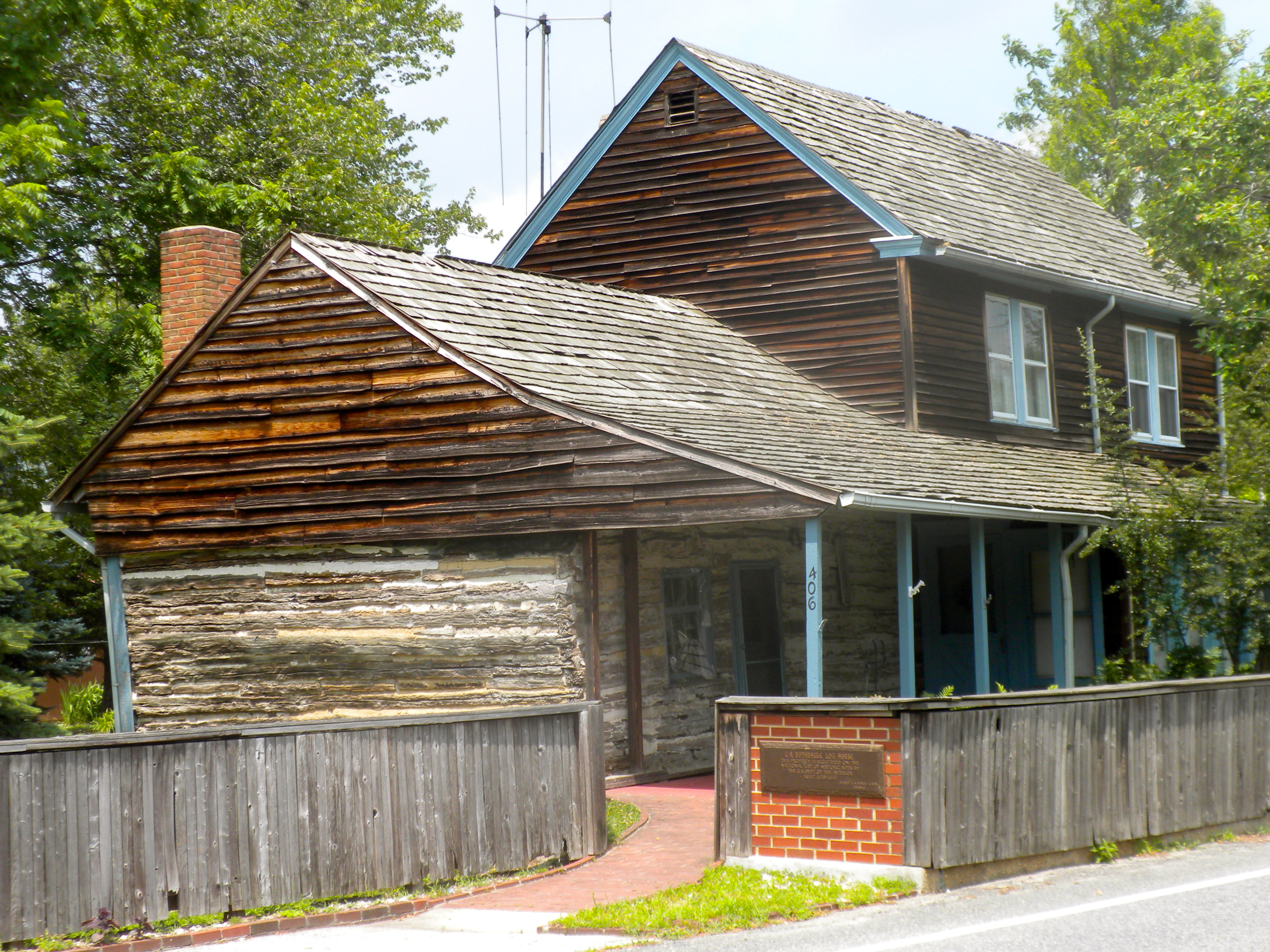 C. A. Nothnagle Log House on the NRHP since April 23, 1976. At Swedesboro-Paulsboro Rd. in Gibbstown, New Jersey. Small part of the house was built c. 1638, larger part in the early 1700s.